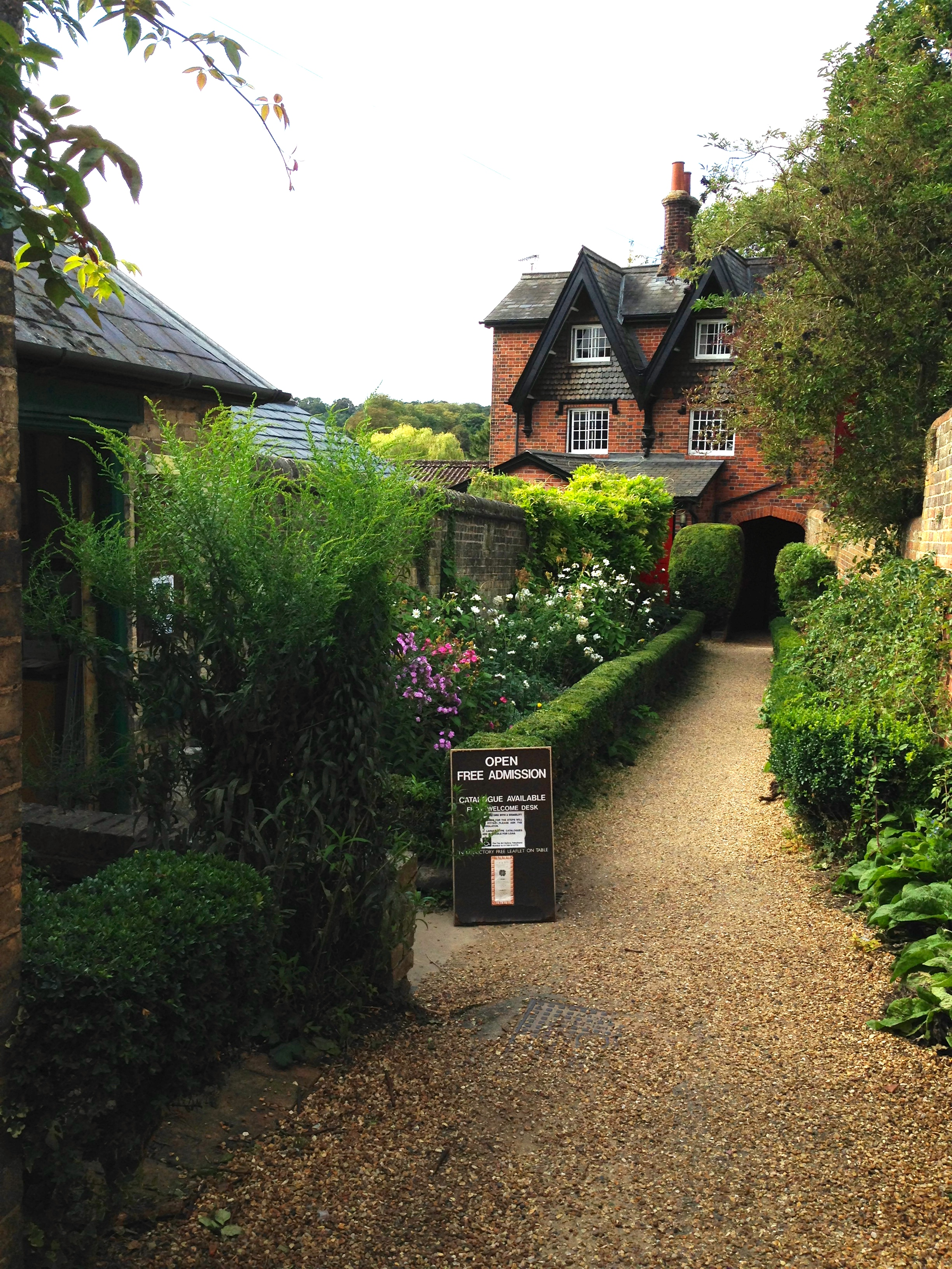 Entrance to Saffron Walden's Bridge End Gardens, by the Fry Art Gallery. This historic group of seven interlinked gardens was laid out originally in the 1840s by the Gibson family, who also originally owned the Fry Art Gallery (then known as the Gibson Gallery).